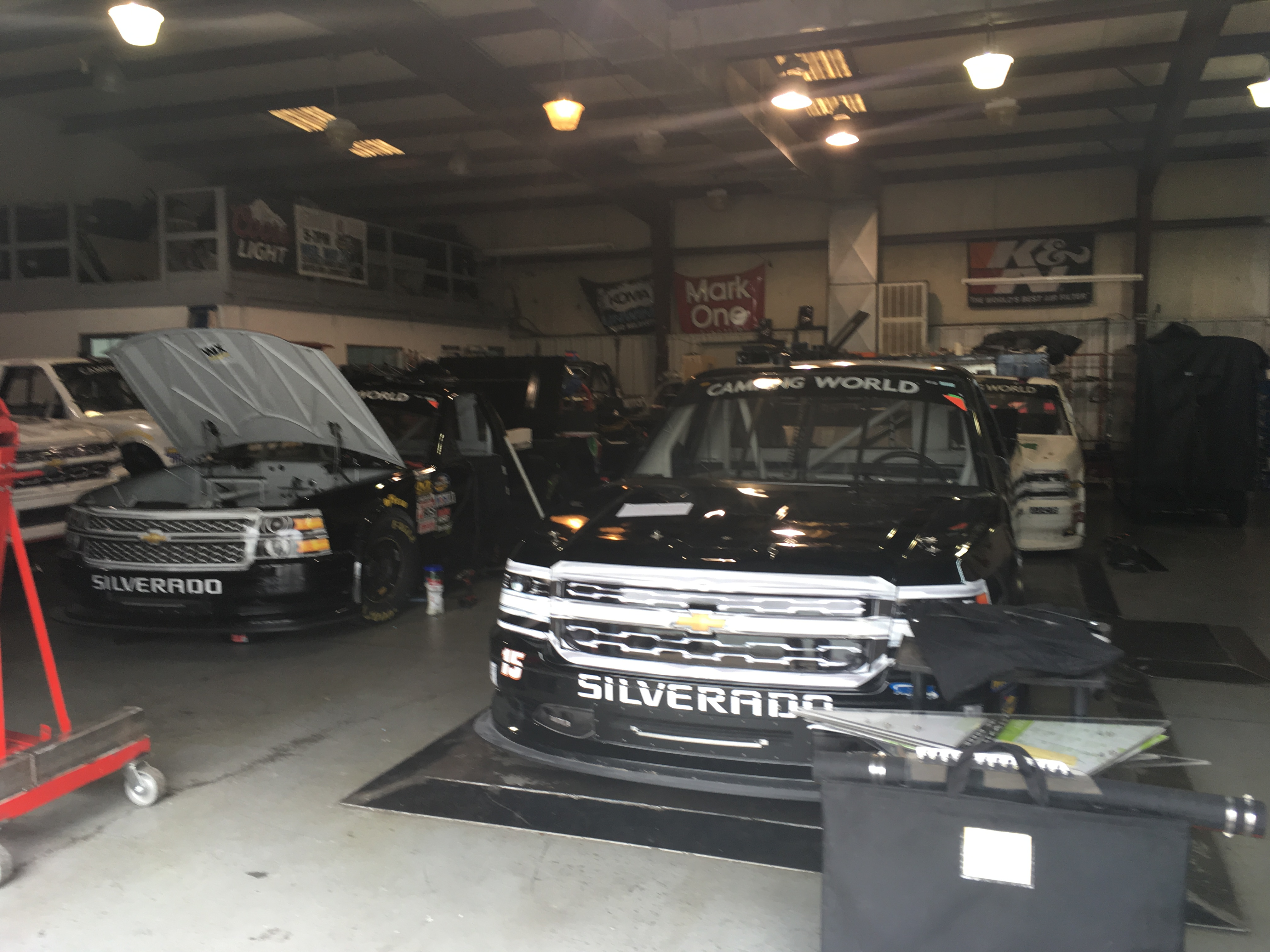 The interior of the Jennifer Jo Cobb Racing race shop in Mooresville, North Carolina